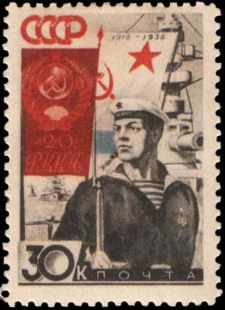 Stamp of USSRː Seaman. Issueː 20th Anniversary of the Workers’ & Peasants’ Red Army and the Workers’ & Peasants’ Red Fleet of the USSR